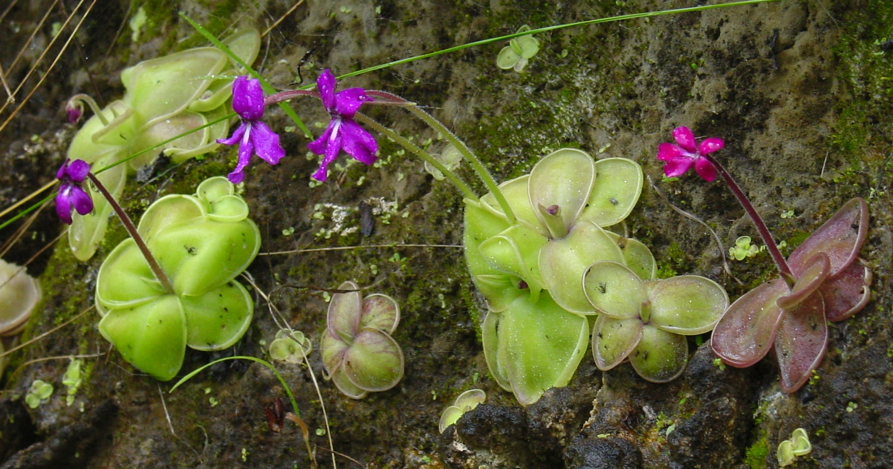 Pinguicula moranensis growing in Oaxaca, Mexico